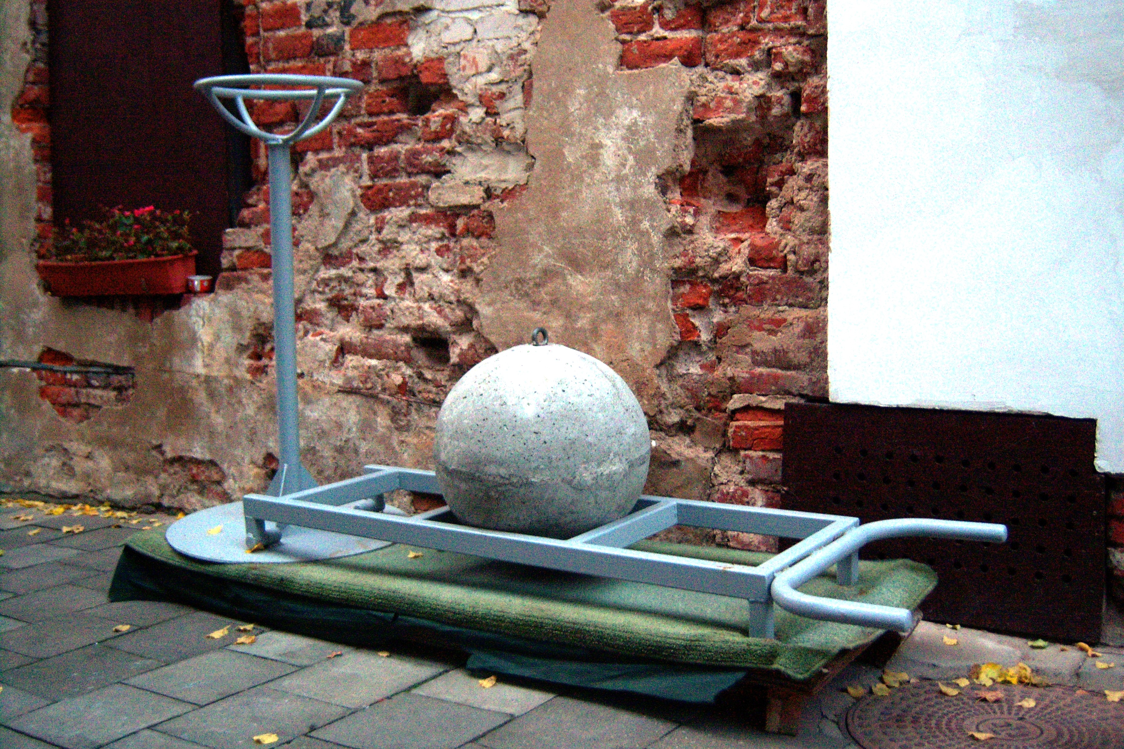 Sports Museum, sports equipment of Žydrūnas Savickas, Kaunas, Lithuania